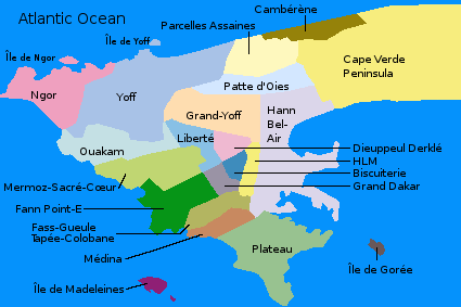 Map of administrative divisions of Dakar, Senegal